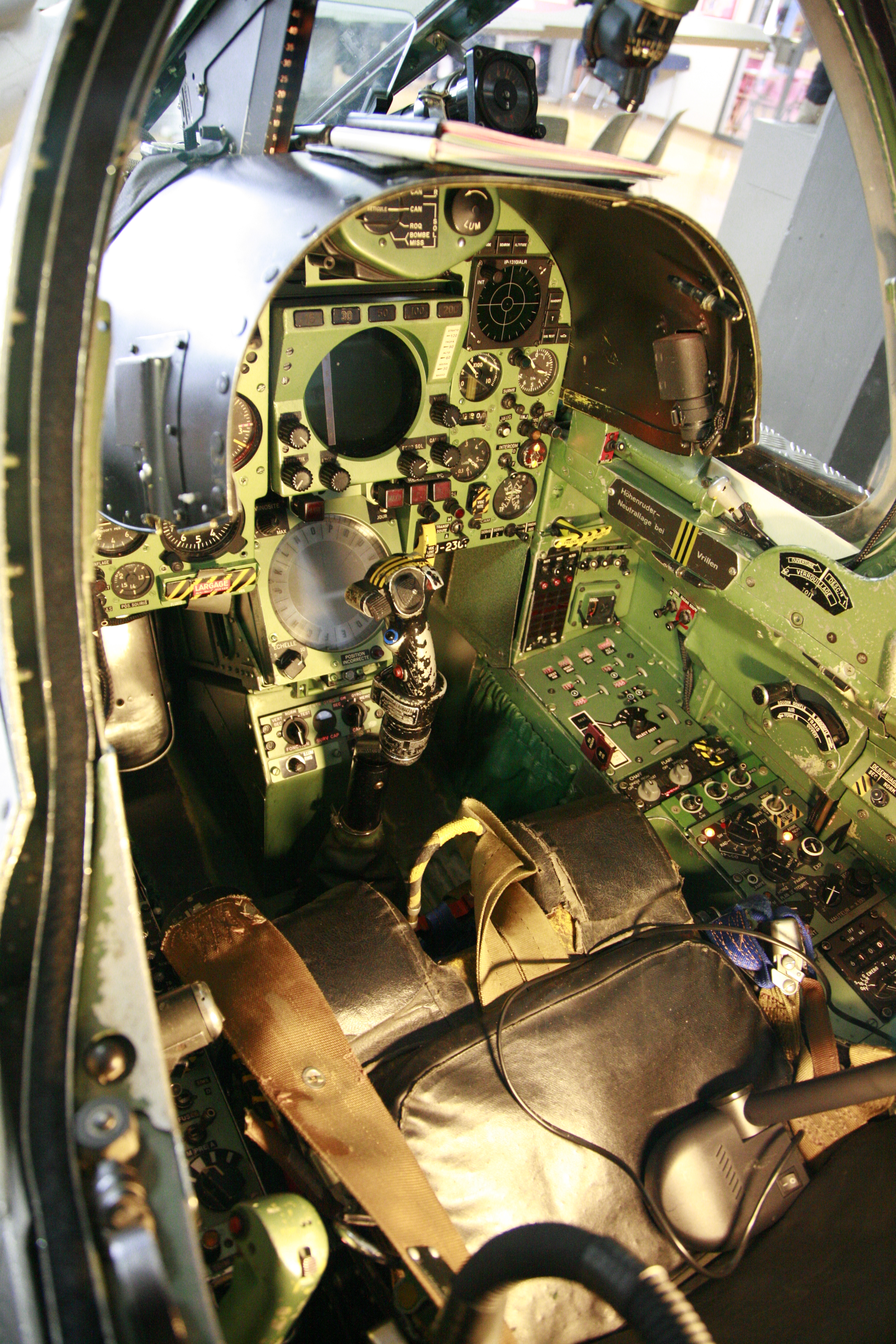 Cockpit of a Mirage III simulator, on display at Payerne airbase museum, Switzerland